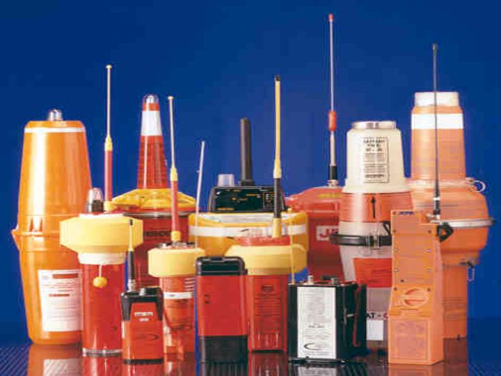 First generation Emergency Position Indicating Radio Beacons (EPIRBs). These are emergency radio transmitters that are carried on ships. In the event that the ship sinks, the beacon is activated and broadcasts a radio signal that is picked up by a search and rescue satellite (SARSAT) to find the ship. They transmit on the international SARSAT frequency of 406 MHz, and some also transmit a low power homing signal on 121.5 MHz.